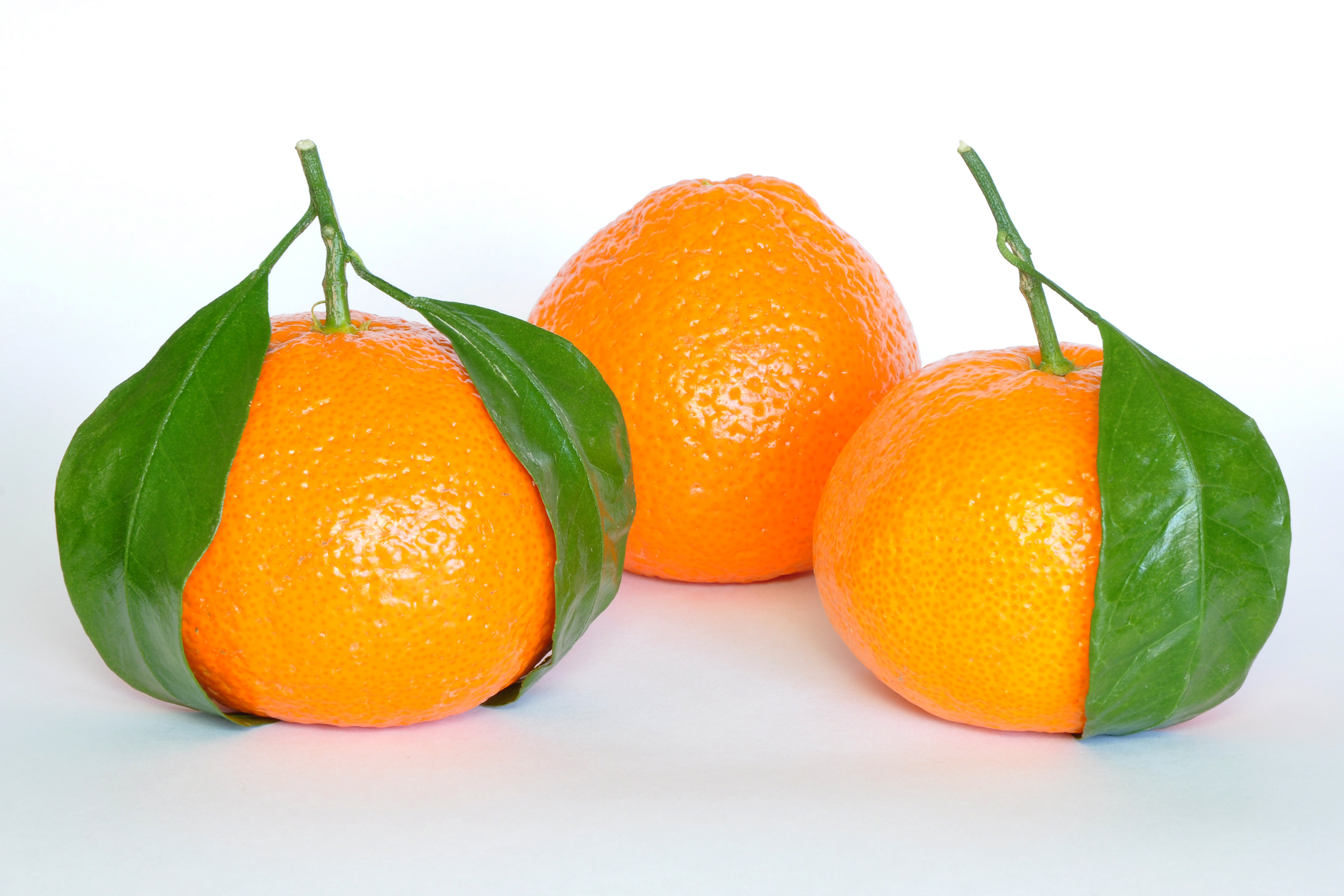 Mandarin oranges (Citrus Reticulata).